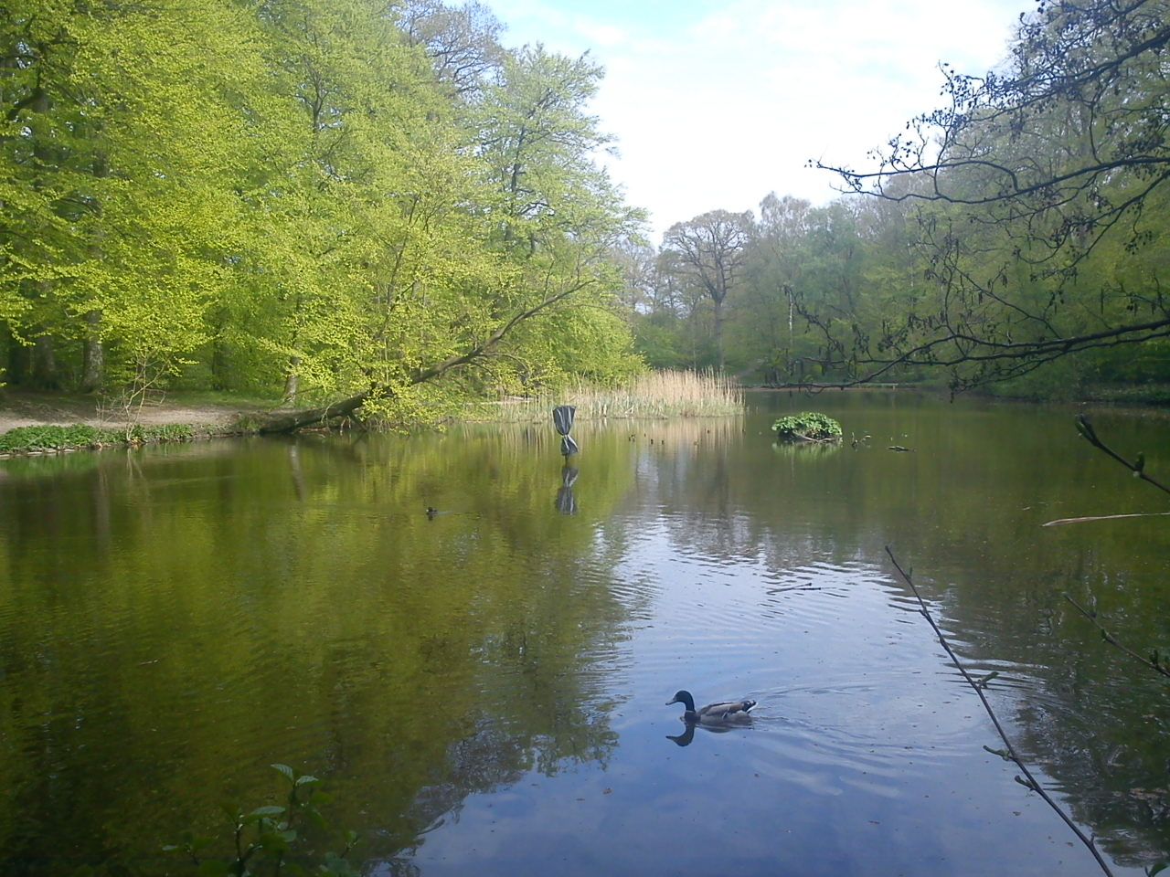 Forest Lake in the Marselisborg Forests